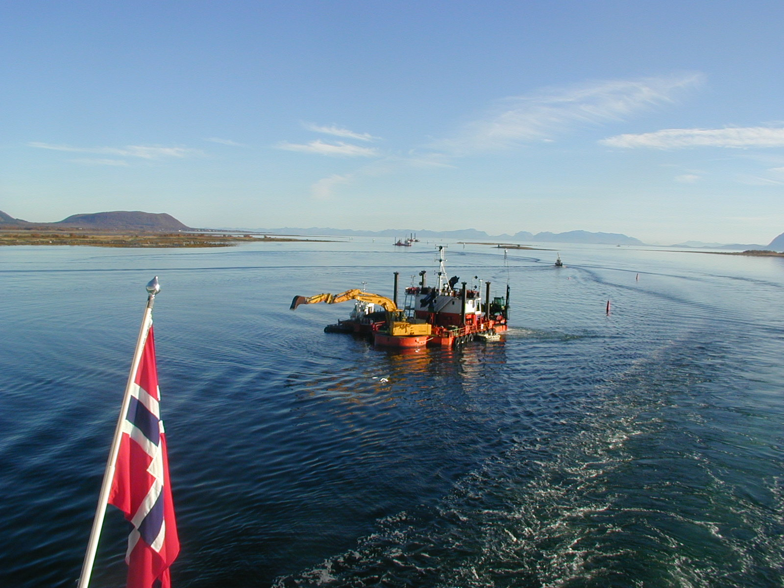 Dredging in Risøyrenna sound between islands Hinnøya and Andøya in Nordland county, Norway. Original description: P9220077